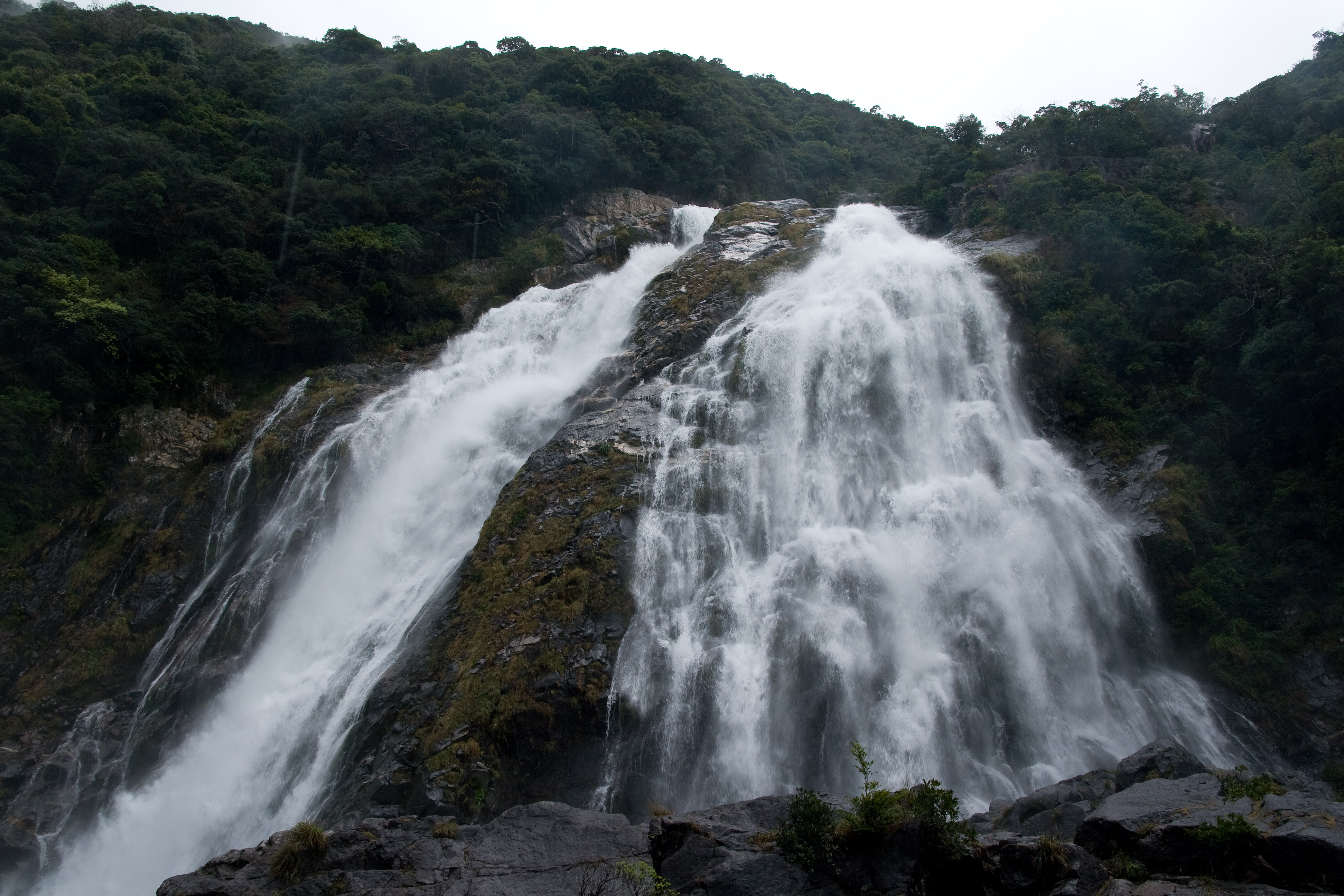 Ooko Falls in Yakushima, Kagoshima Pref., Japan.